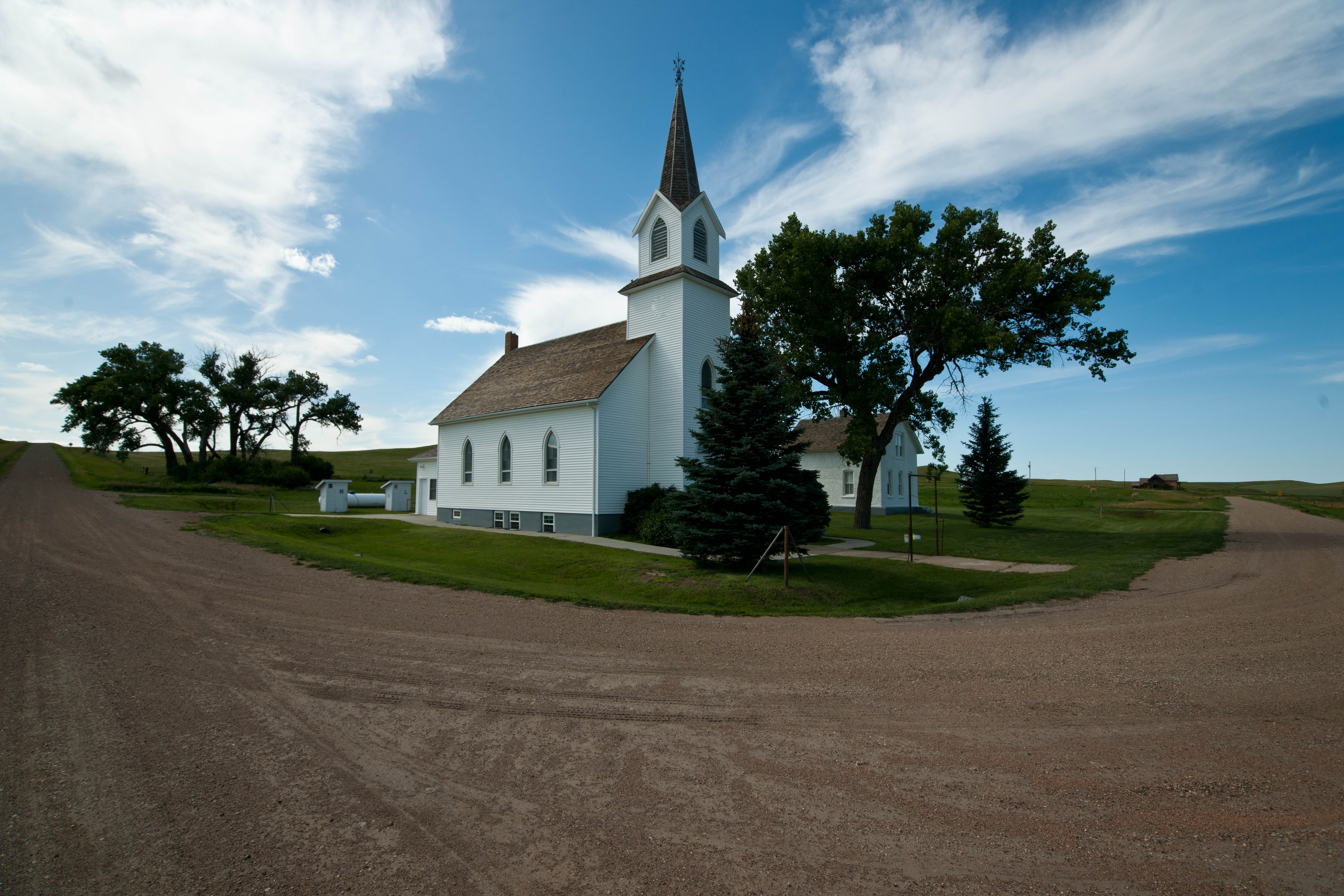 From , Sims Lutheran Church